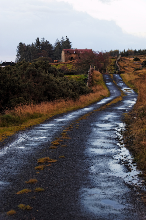 A typical rural back road in western Ireland